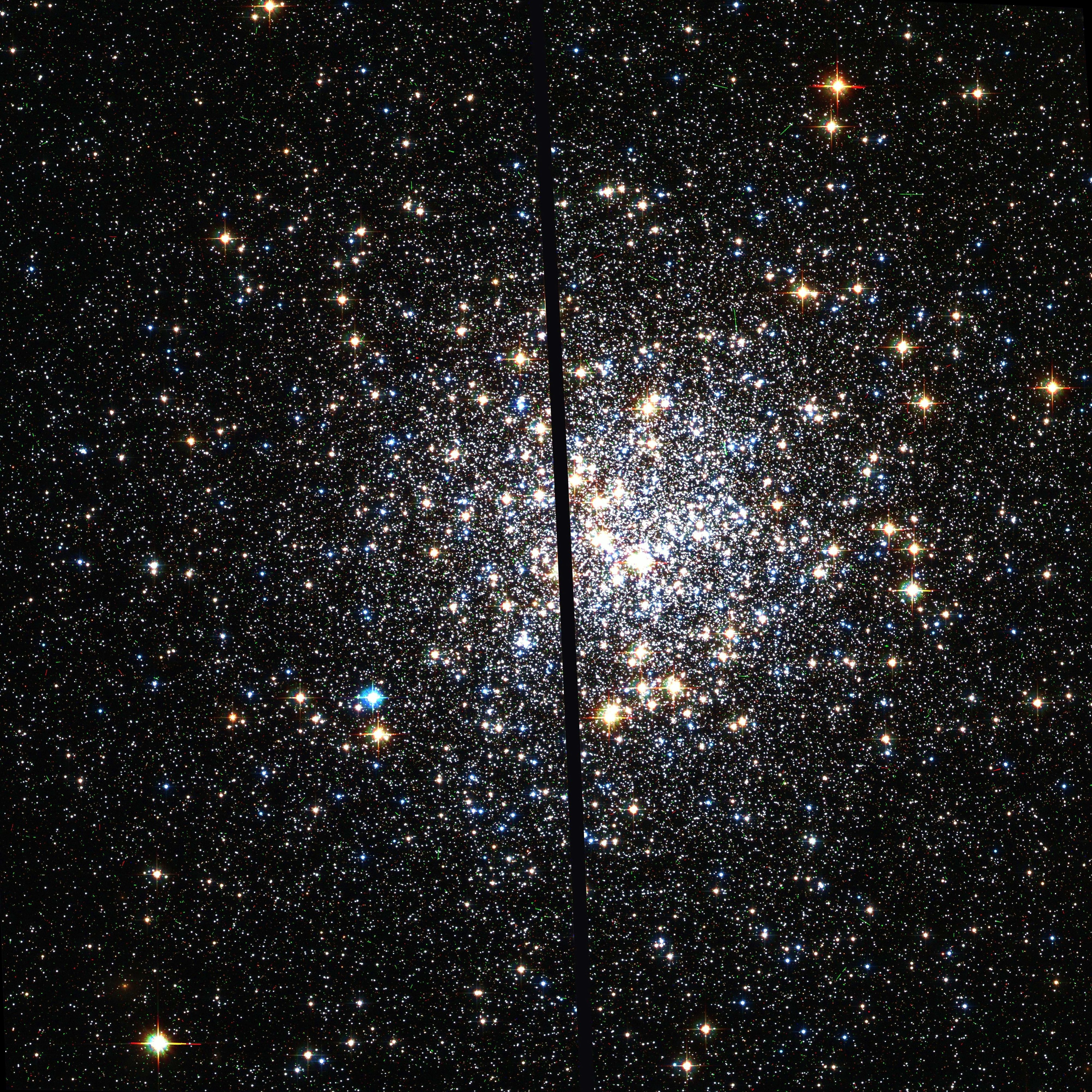 Messier object 9 - globular cluster in Ophiucus constellation by Hubble space telescope